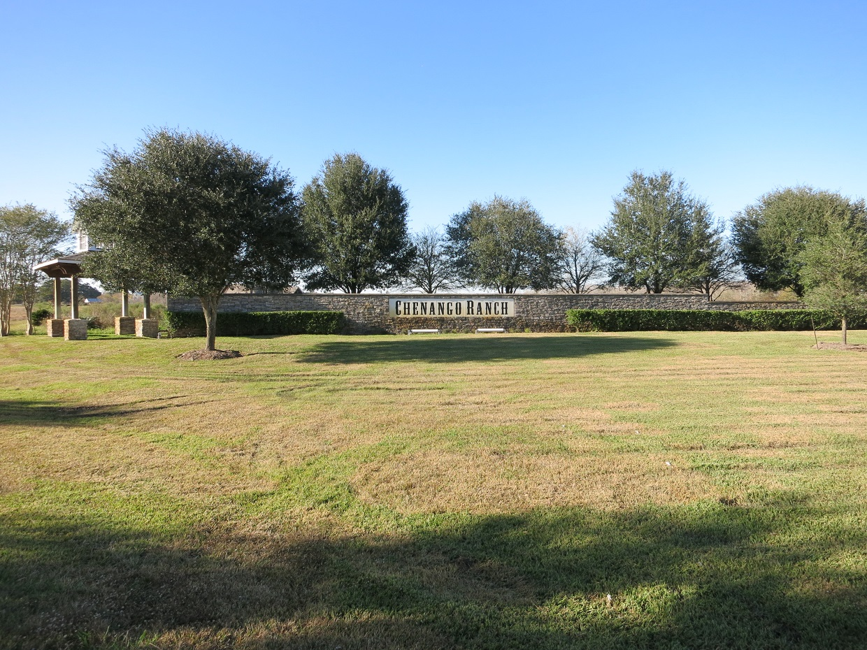 Photo shows the sign at the entrance to the Chenango Ranch subdivision in Chenango, Texas. View is toward the northwest.